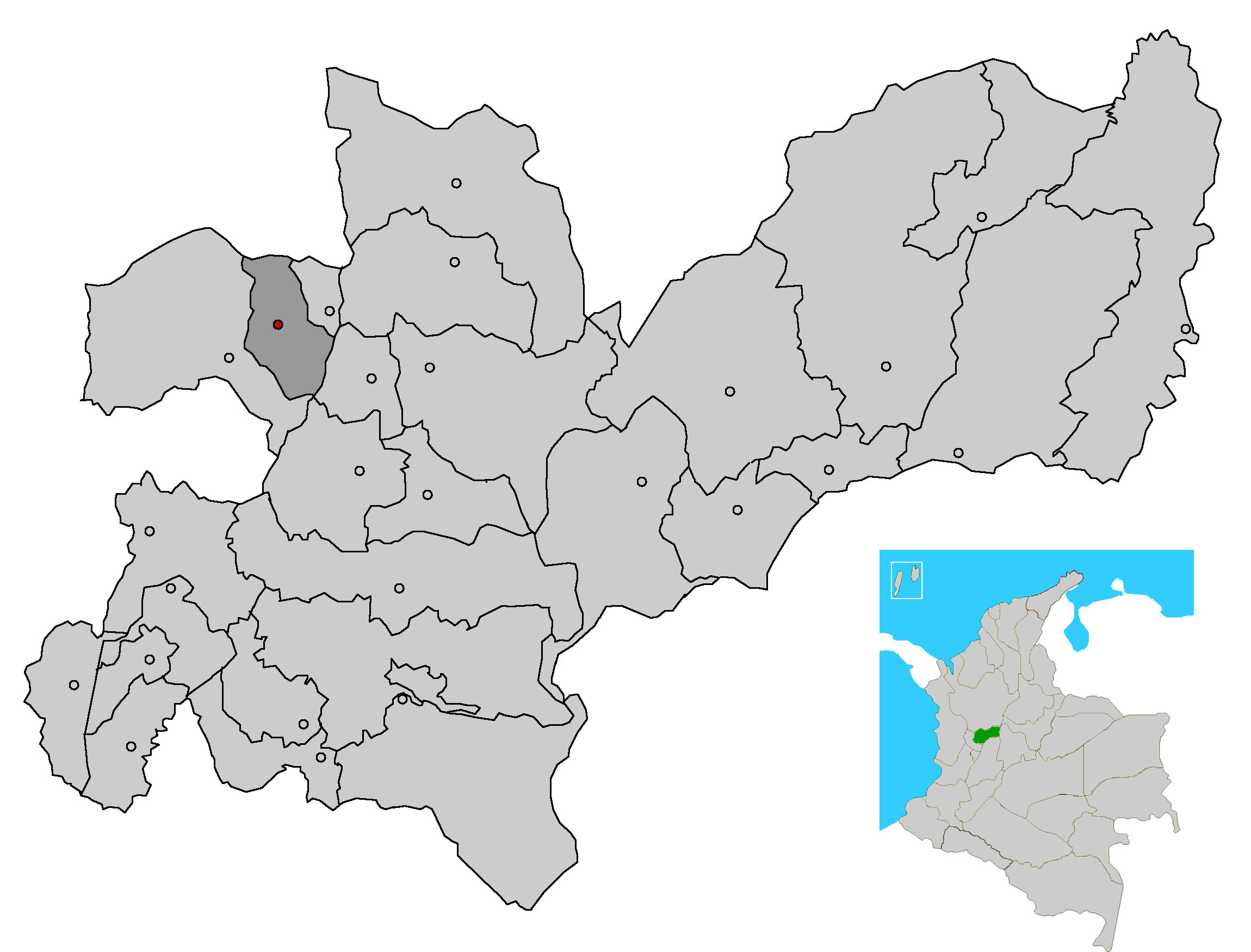 Image depicting map location of the town and municipality of Supia in Caldas Department, Colombia